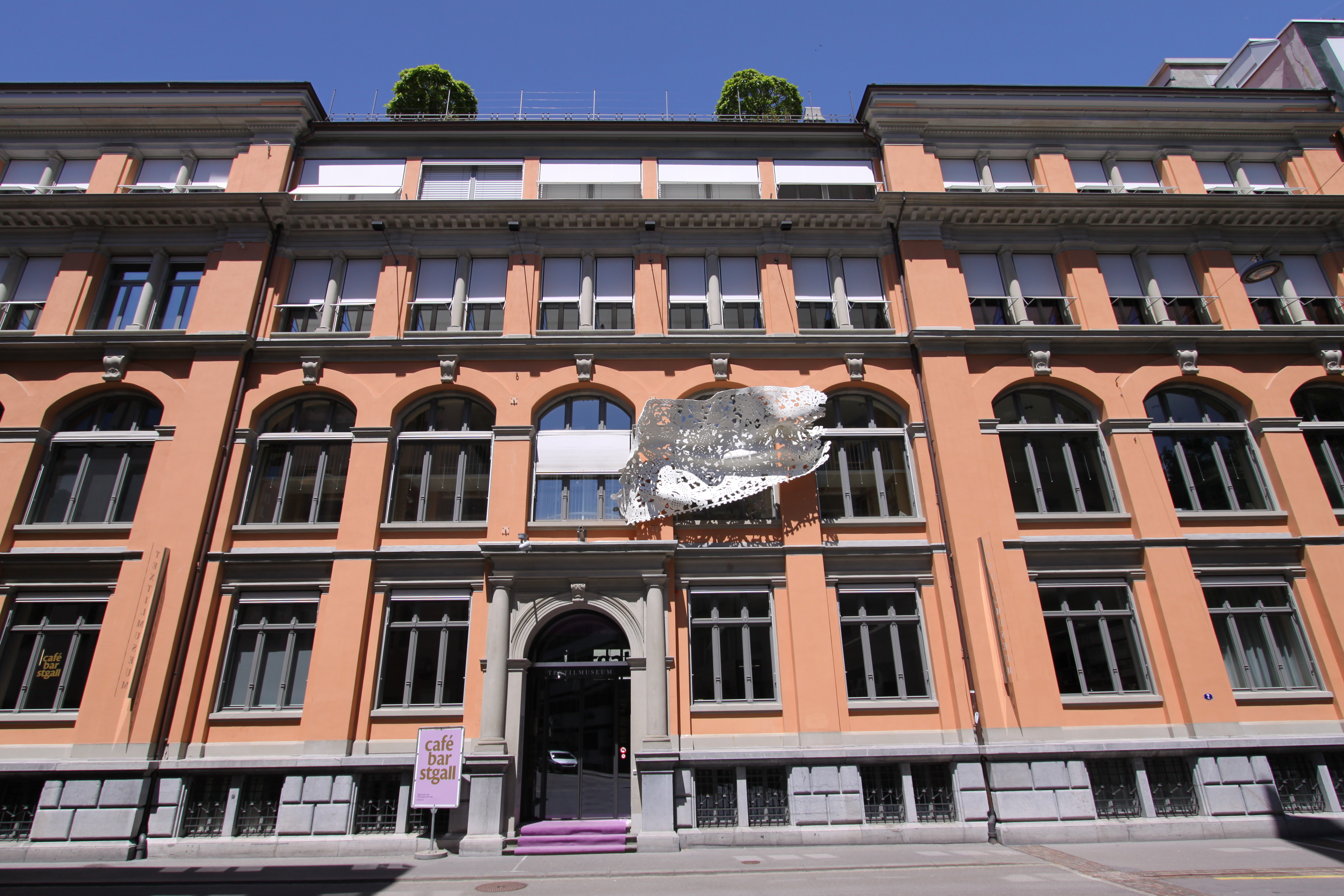 Textile Museum, Vadianstrasse 2, St. Gallen